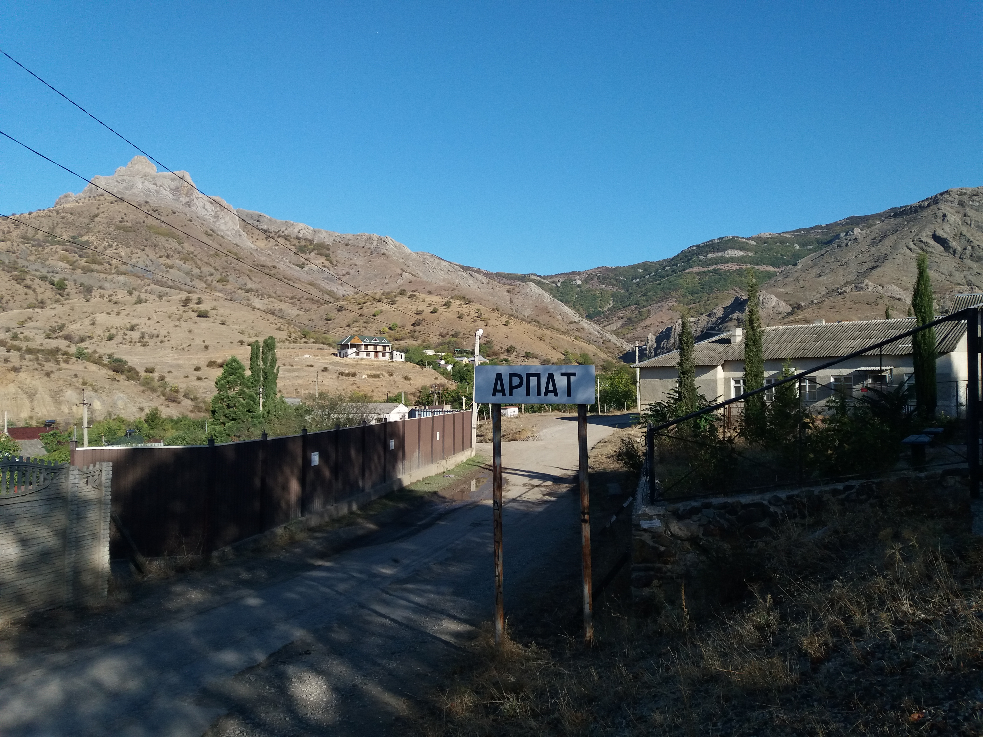 Crimean village "Arpat"